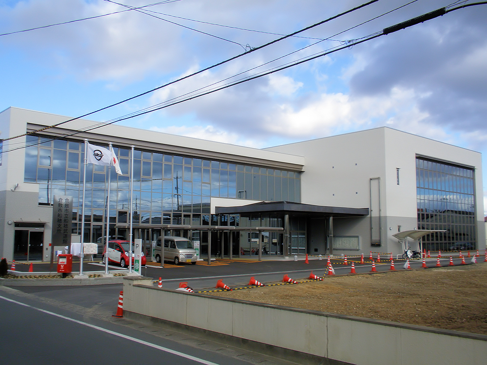 Kurashiki city office Funao branch (left), and Kurashiki municipal Funao Budōkan (Since October 12, 2010)